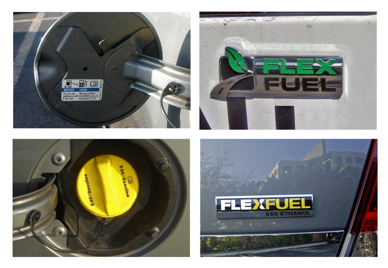 Four typical commercial labels and badging of E85 flexible-fuel vehicles in the US. Badges shown for Ford (top right) and GM (bottom right)